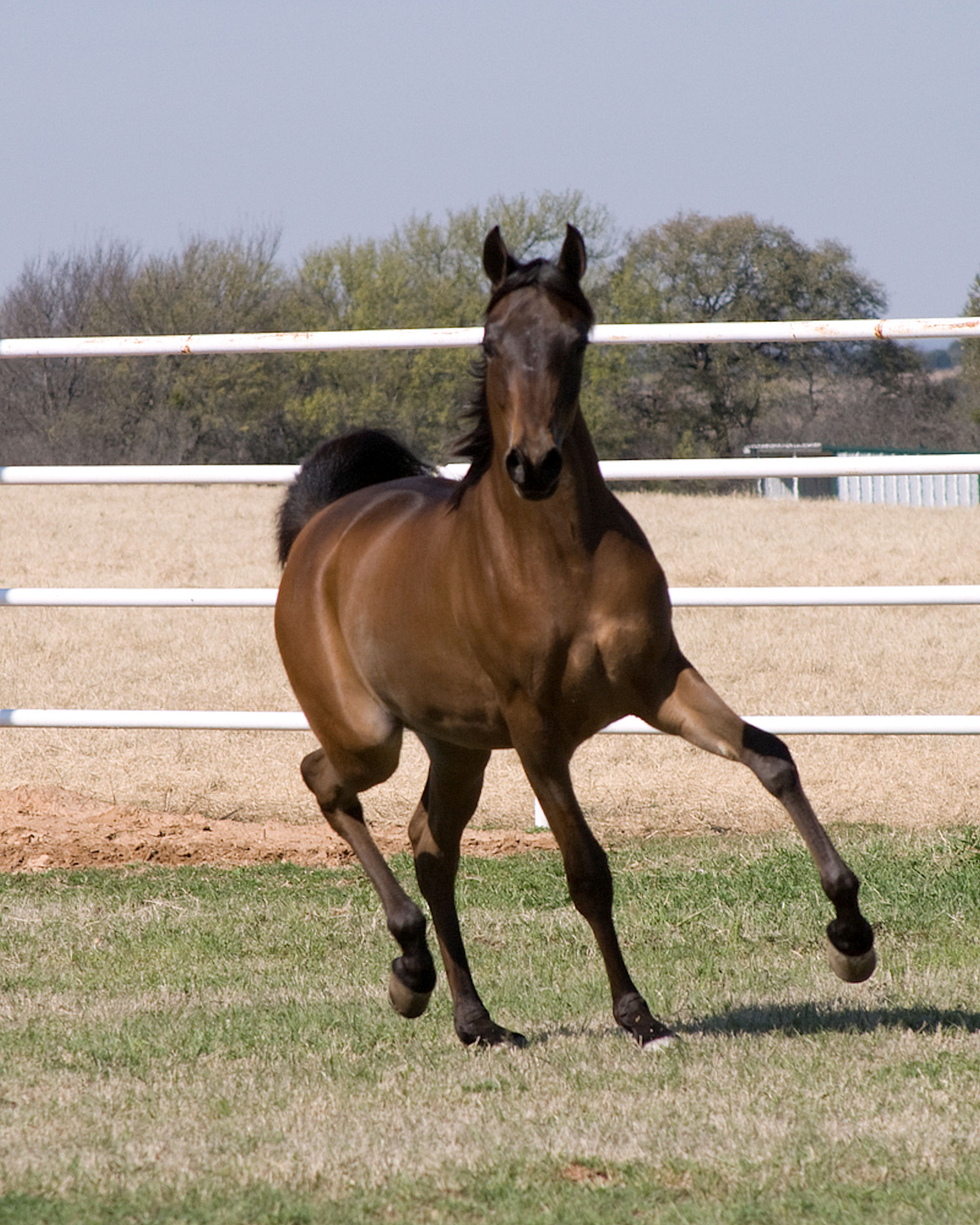 Trotting Arabian colt